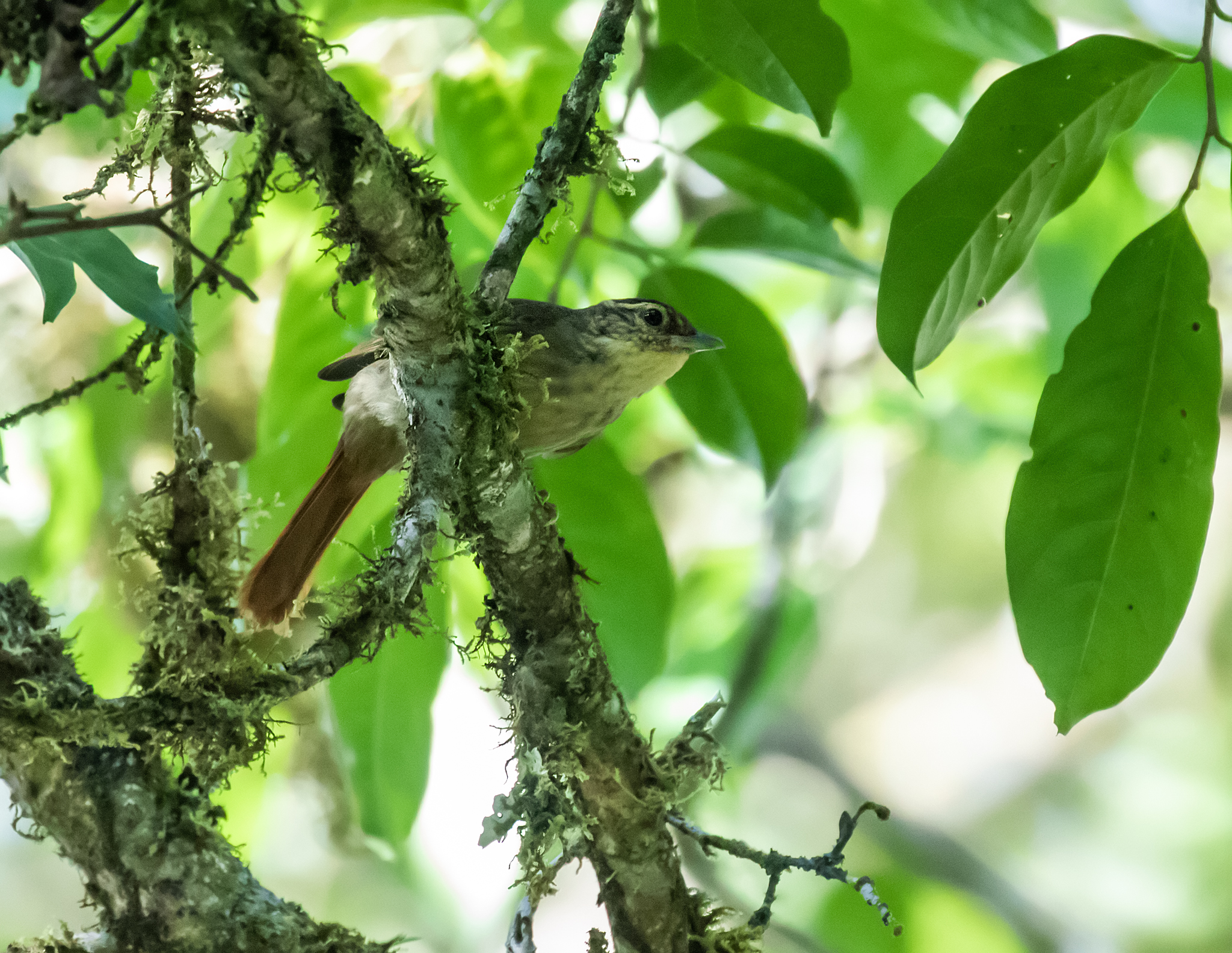 Rufous-tailed Foliage-gleaner from Maycu Reserve, Zamora-Chinchipe, Ecuador